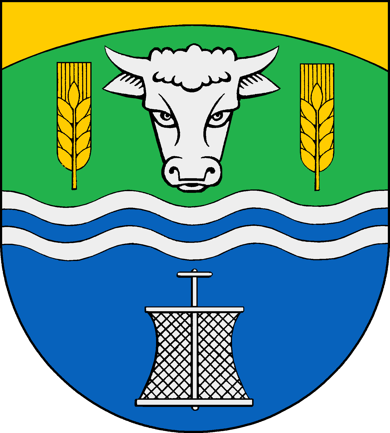 Coat of arms of the municipality Uelvesbüll in Schleswig-Holstein, Germany.